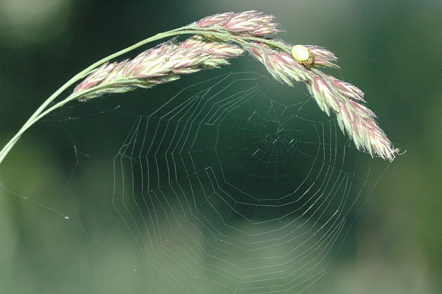 Araniella cucurbitina web, from Commanster, Belgian High Ardennes .